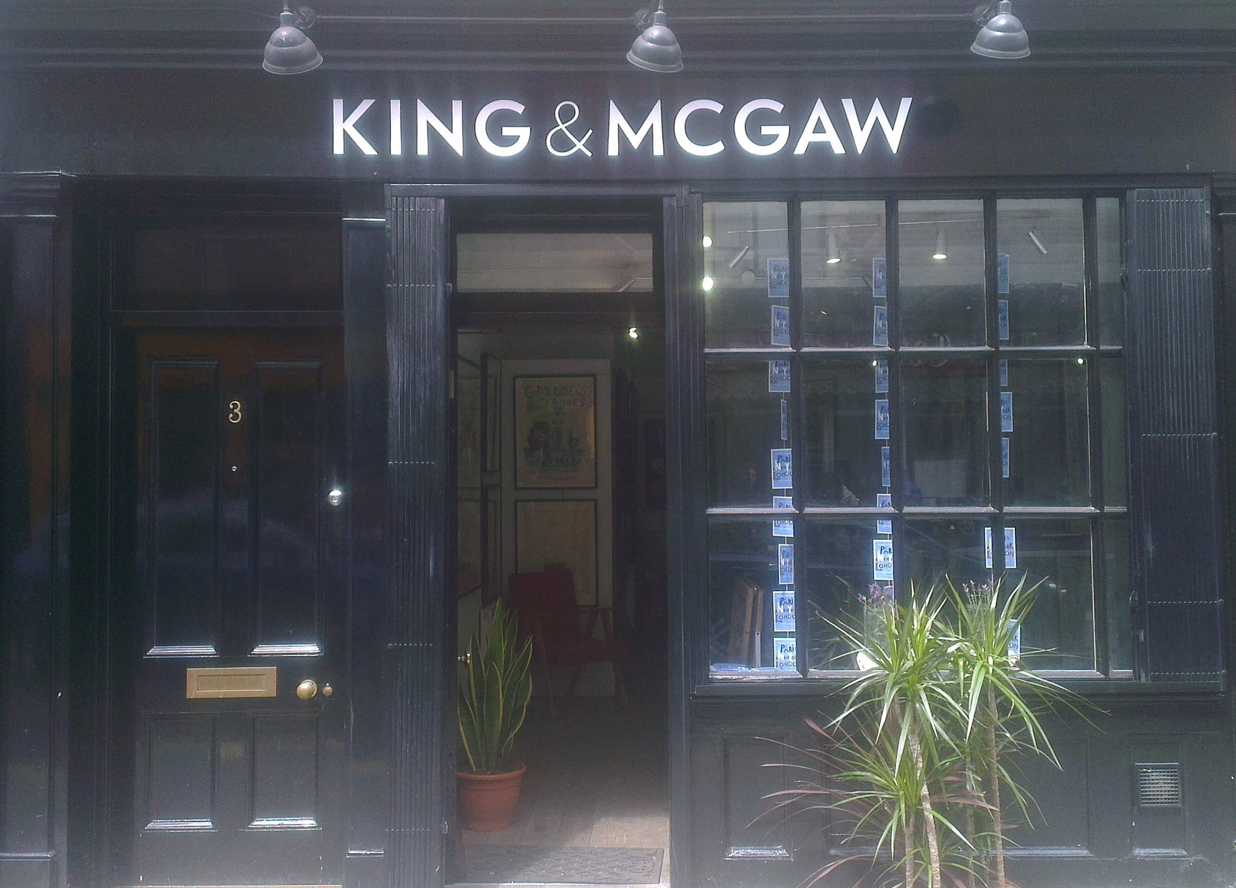 Front on King & McGaw pop-up shop, Soho, London, May 2015